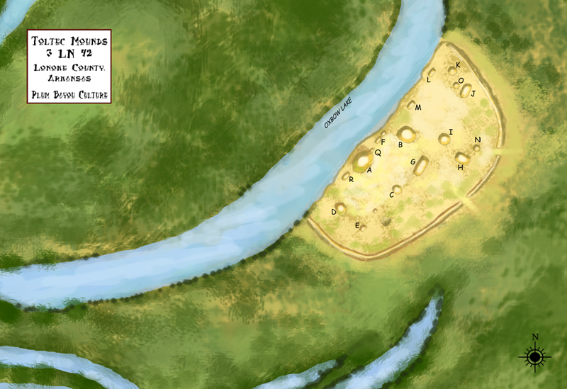 Illustration overview of the Plum Bayou culture Toltec Mounds Archeological Site in central Arkansas, USA. It was occupied by its original inhabitants from 600 to 1050 CE.